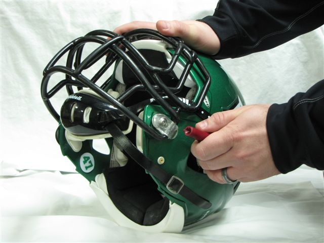 Helmet with traditional face mask